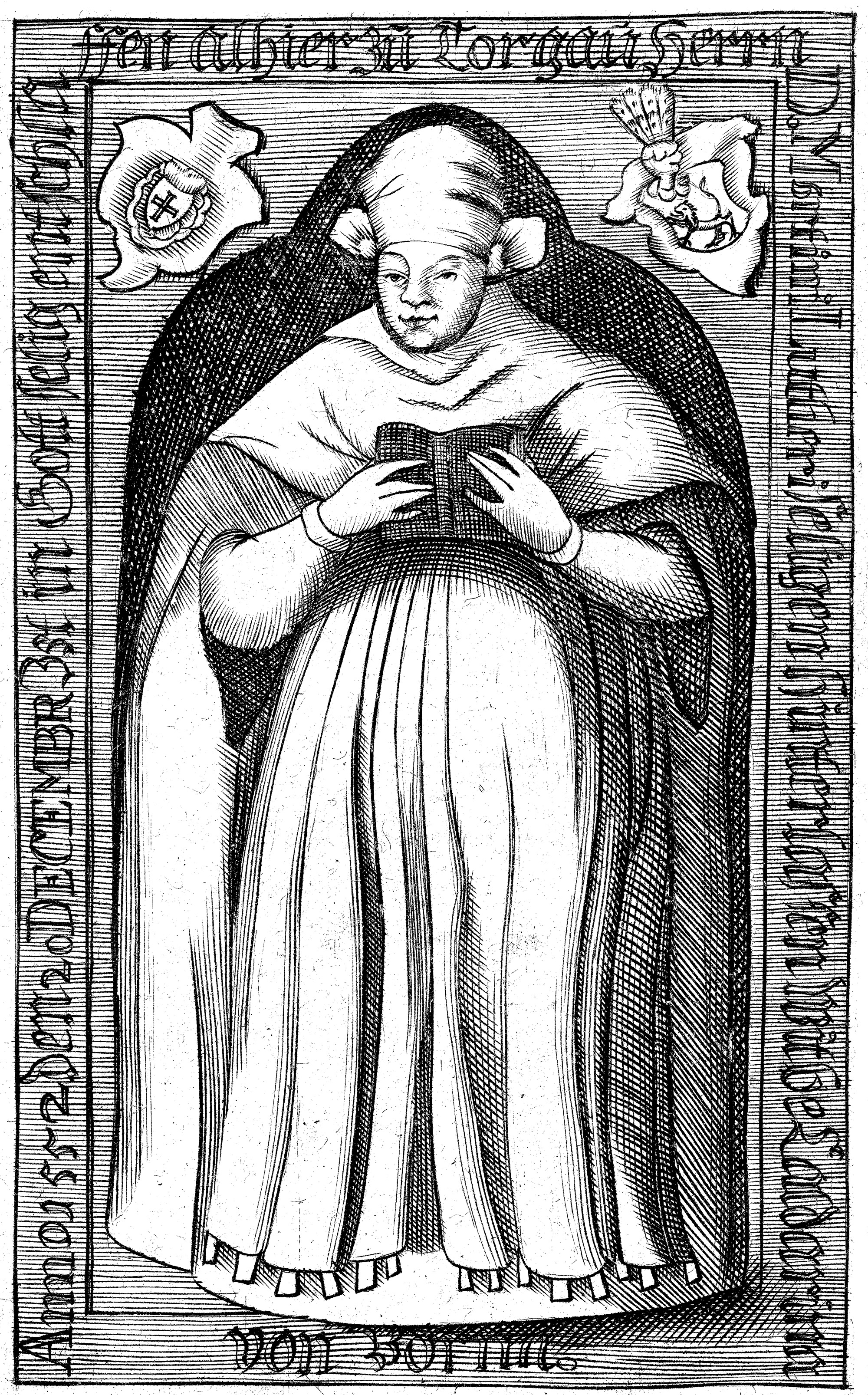 Portrait of Katharina von Bora Luther (1483-1546), wife of Martin Luther (1483-1546) as a nun .